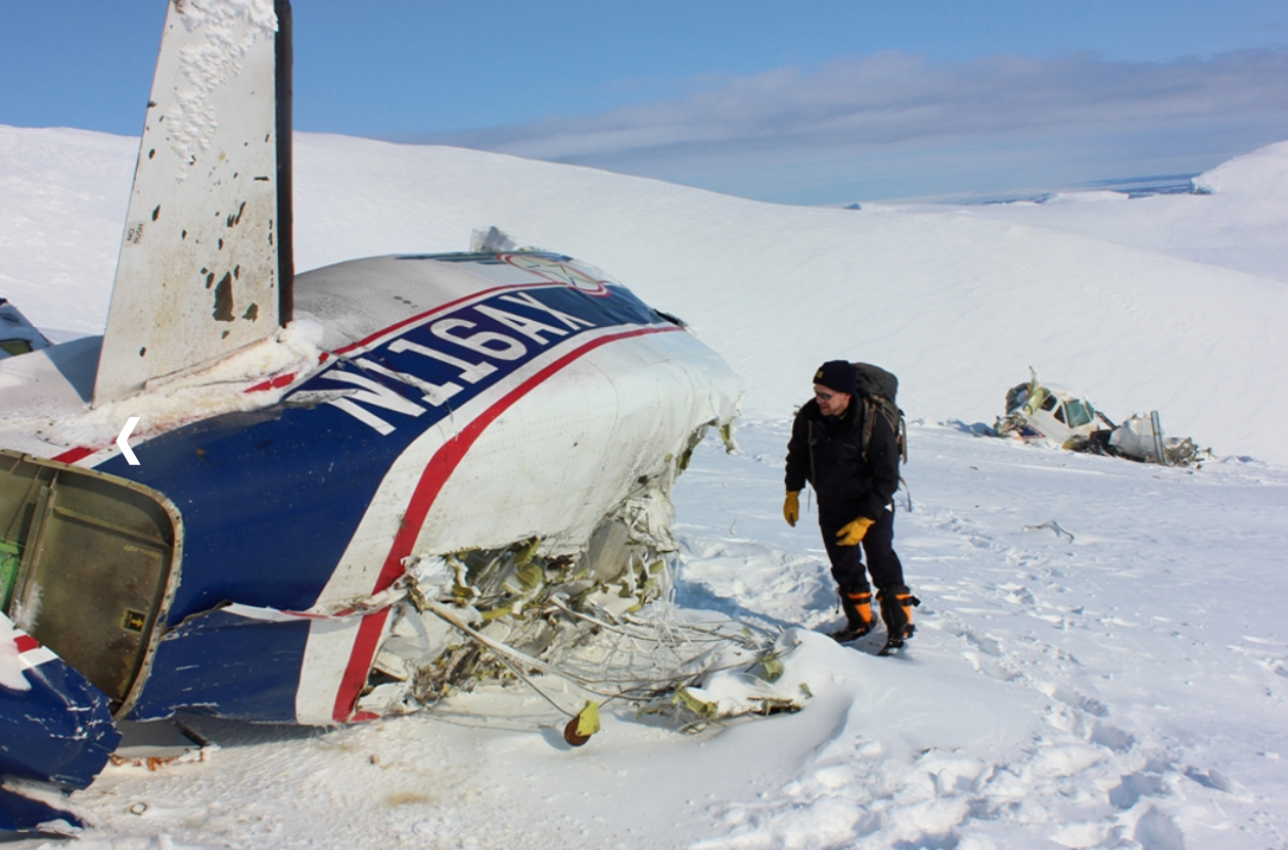 ACE Air Cargo N116AX wreckage